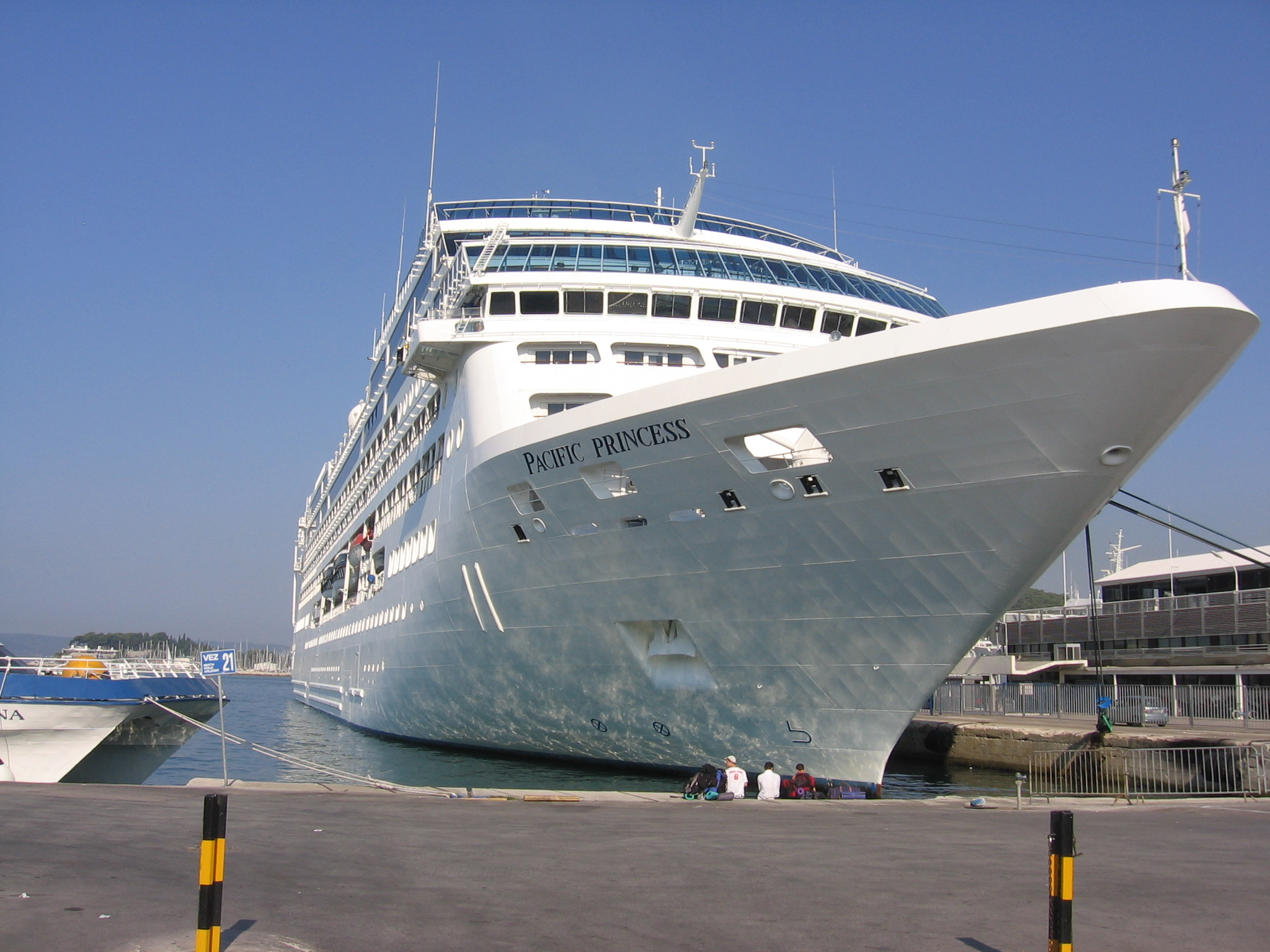 Pacific Princess in Split